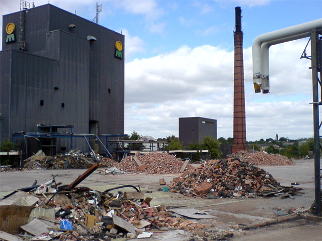 Former Mansfield Brewery. Demolition of the old Mansfield Brewery site which closed in December 2001 after providing intoxicating beverages for over 145 years